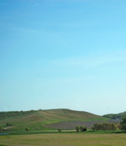 This is a picture of Buffalo Ridge. It was taken by Joe Karlisch in the spring of 2006.